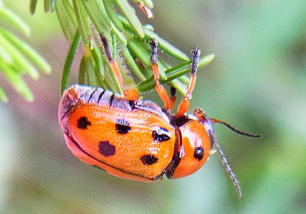 Cryptocephalus cynarae from northern Spain, Sena de Luna, León about 50 km south of Oviedo, at 1100 m at 2013-07-19